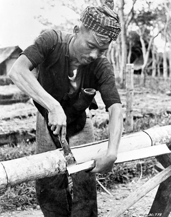 Removing the bark of a chinchona tree with a bendo, Java